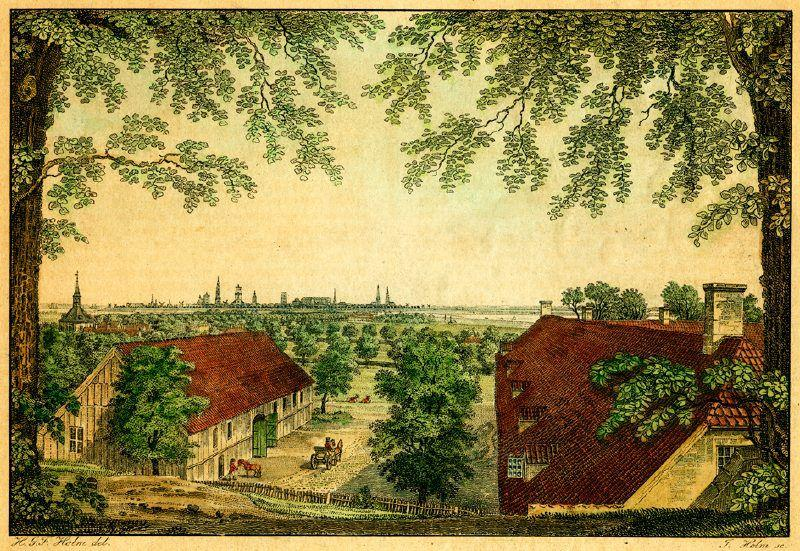 View from Frederiksberg Slot with Lakahgården in the foreground in Copenhagen, Denmark